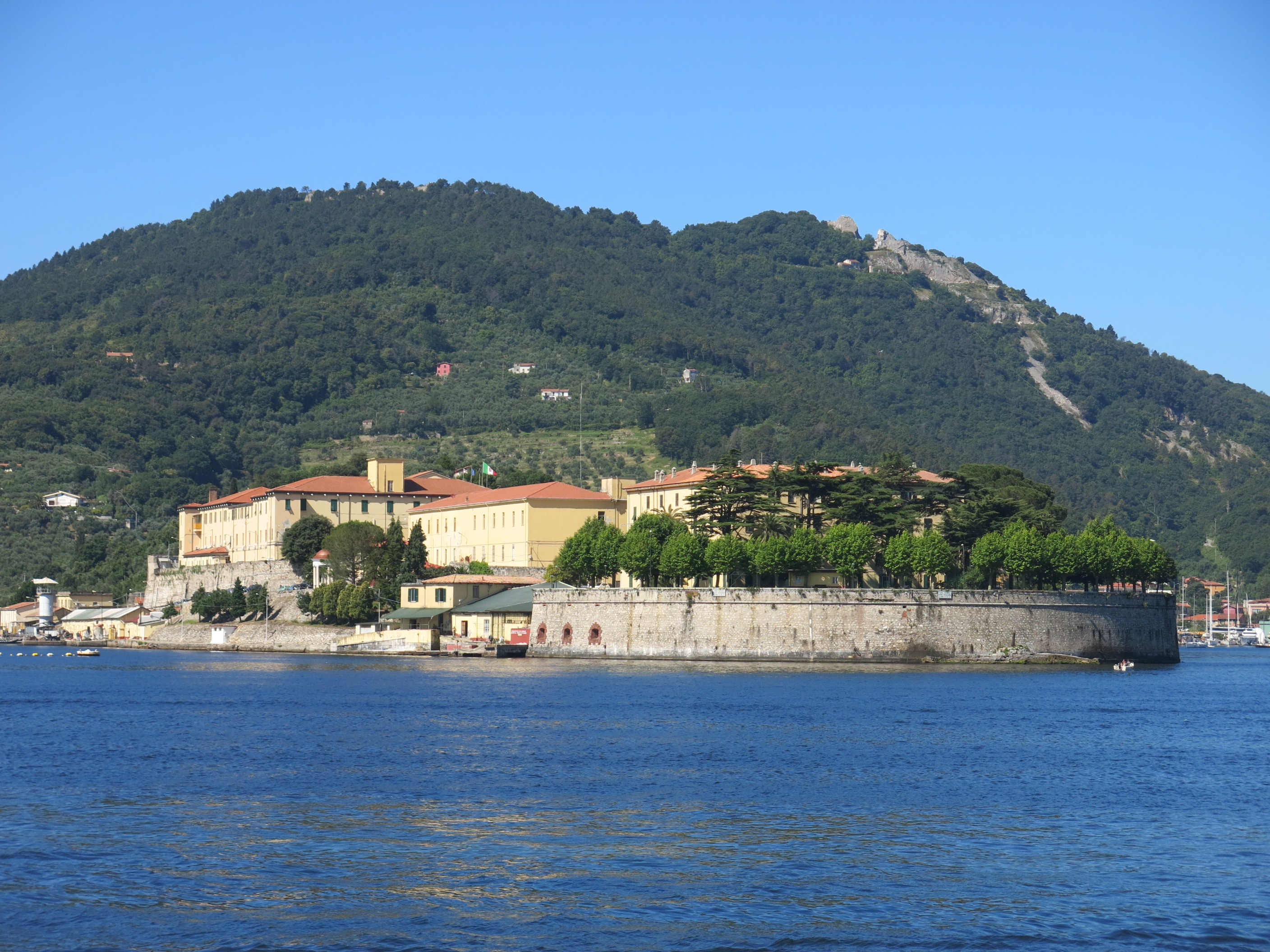 Naval military base "Teseo Tesei" in la Spezia (Liguria, Italy).